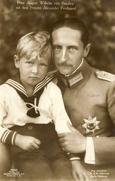 Portrait postcard showing Prince August Wilhelm of Prussia, seated, with his son Alexander Ferdinand von Preußen (December 26, 1912 – June 12, 1985) on his knees.